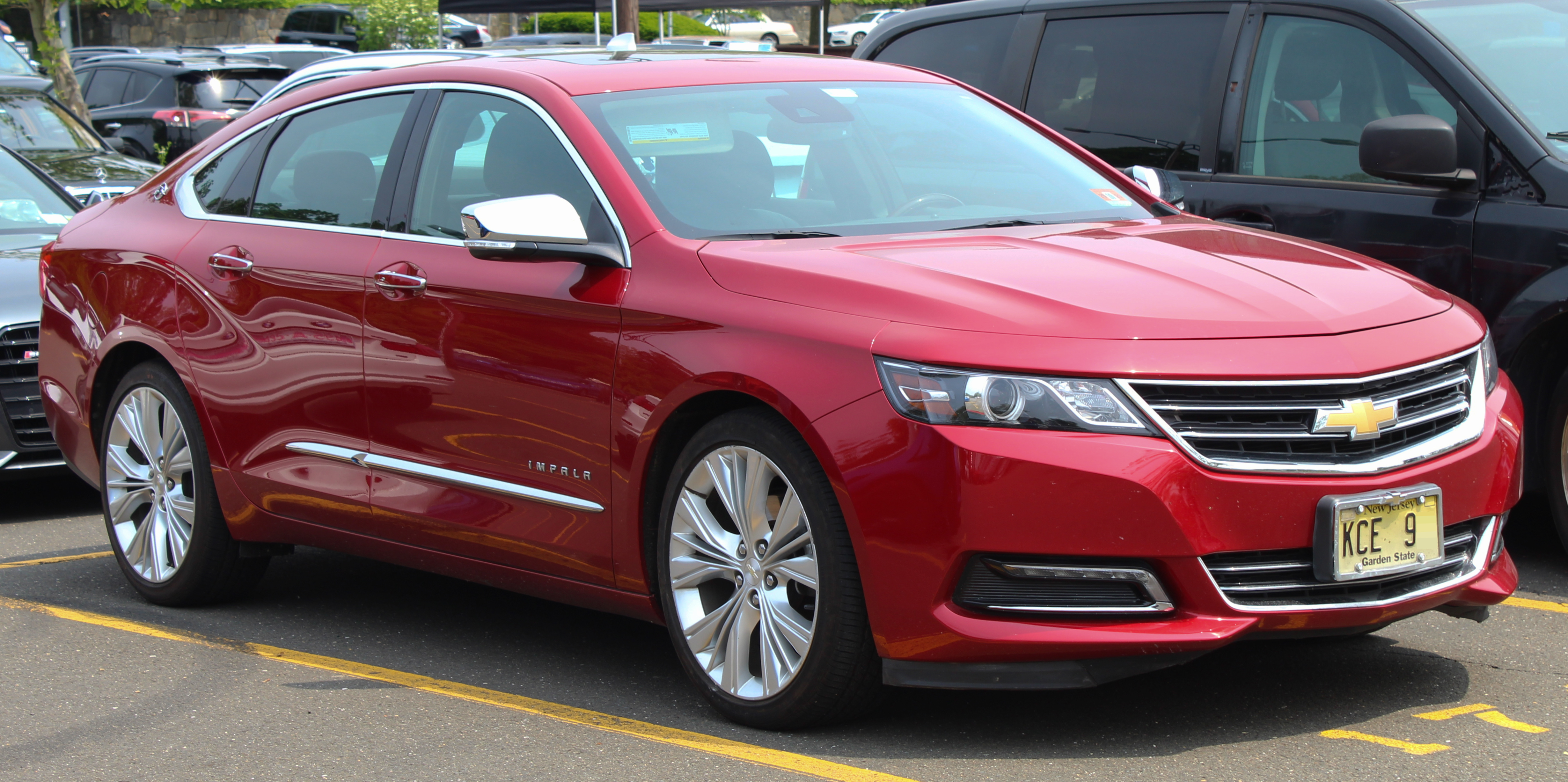 A 2014 Chevrolet Impala LTZ photographed in Greenwich Concours d'Elégance Hagerty parking lot, Connecticut, USA